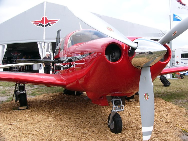 I took this photo of the prototype Mooney M20TN Acclaim at Sun 'n Fun 2006